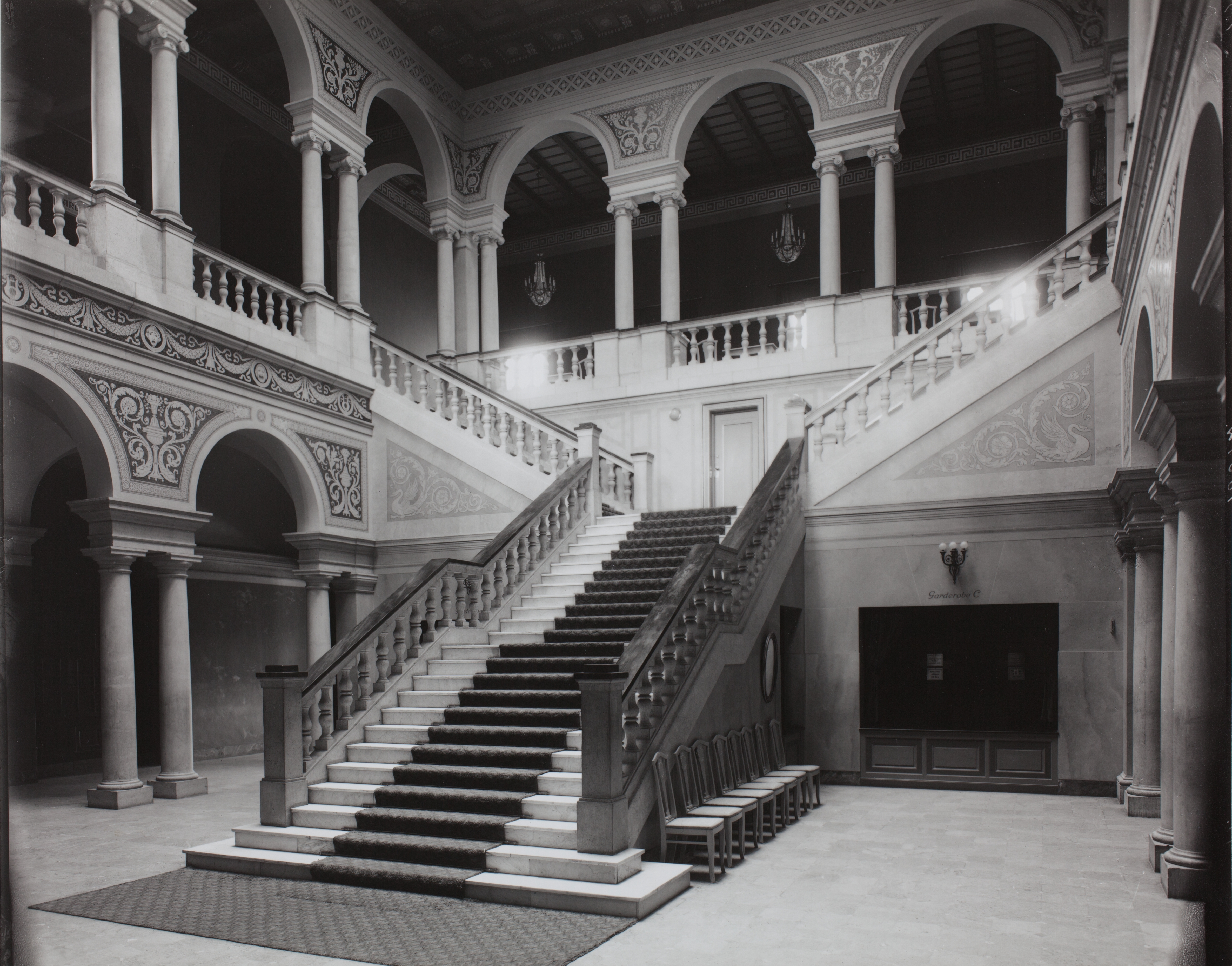 The lobby of the Palads cinema in Copenhagen, Denmark